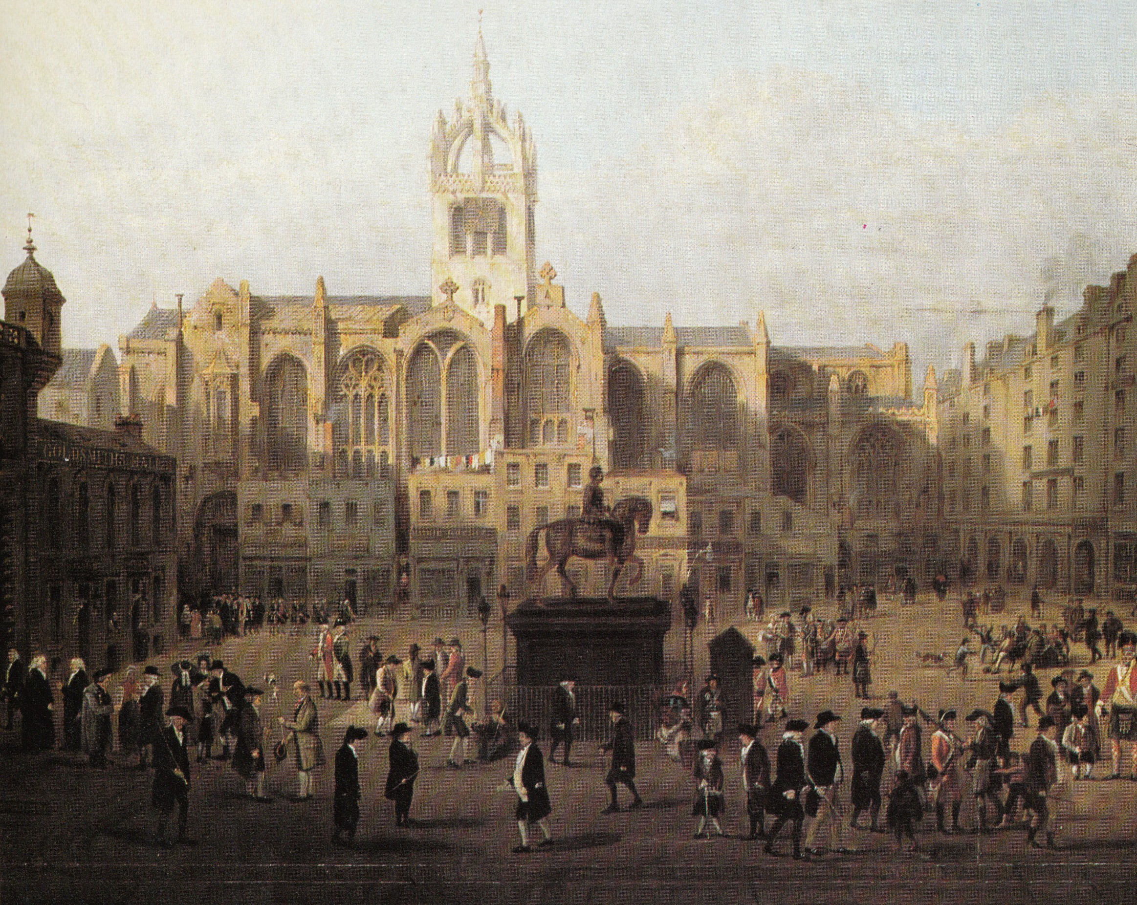 "The Parliament Close and Public Characters Fifty Years Since". It depicts a scene from before 1796, the year when the Goldsmiths' Hall, seen on the left of the picture, was burnt down. Some of the characters shown in the painting, based on caricatures by John Kay, are identified on its description page at Commons.